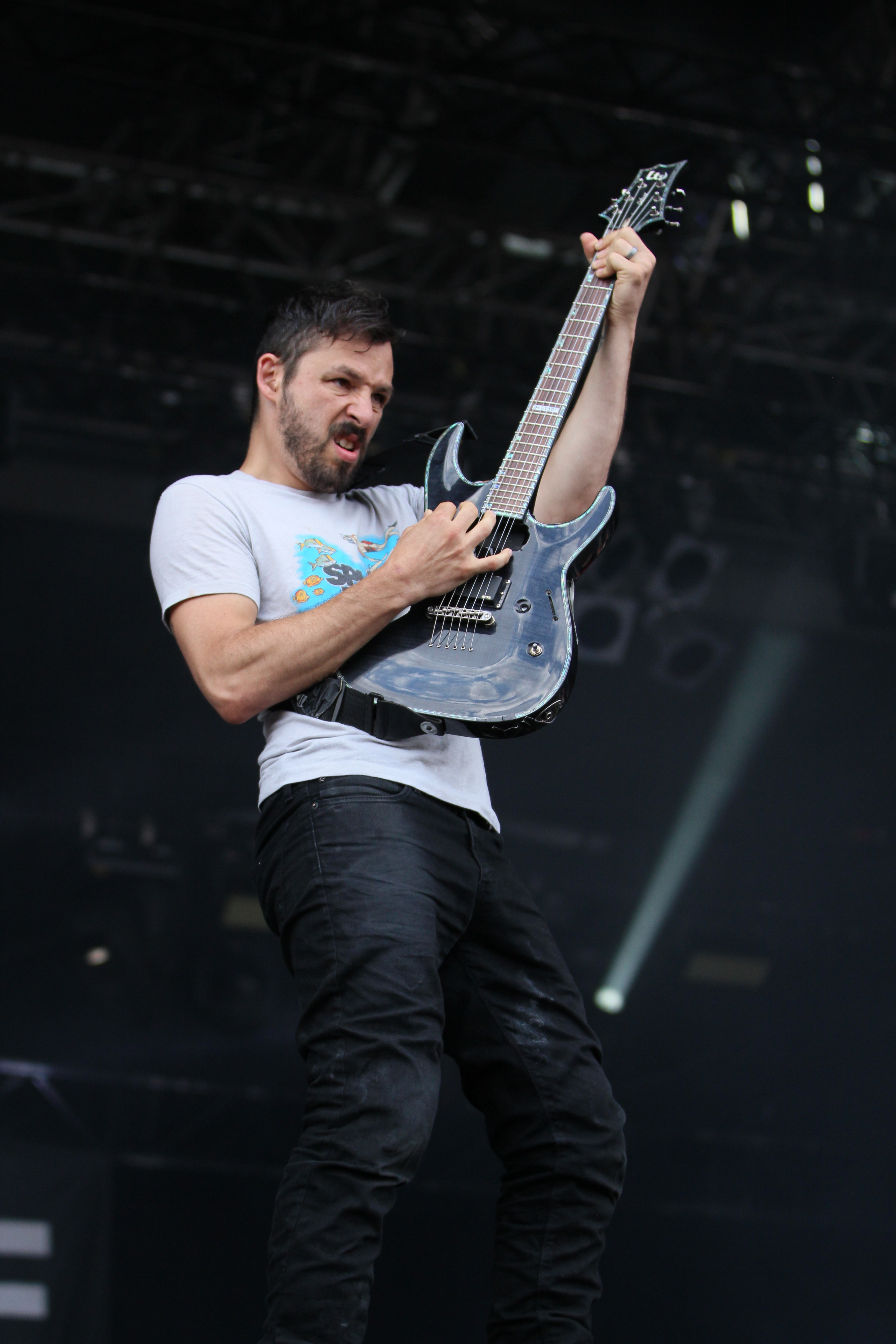 The American mathcore band The Dillinger Escape Plan at the With Full Force festival 2014 in Roitzschjora/Germany